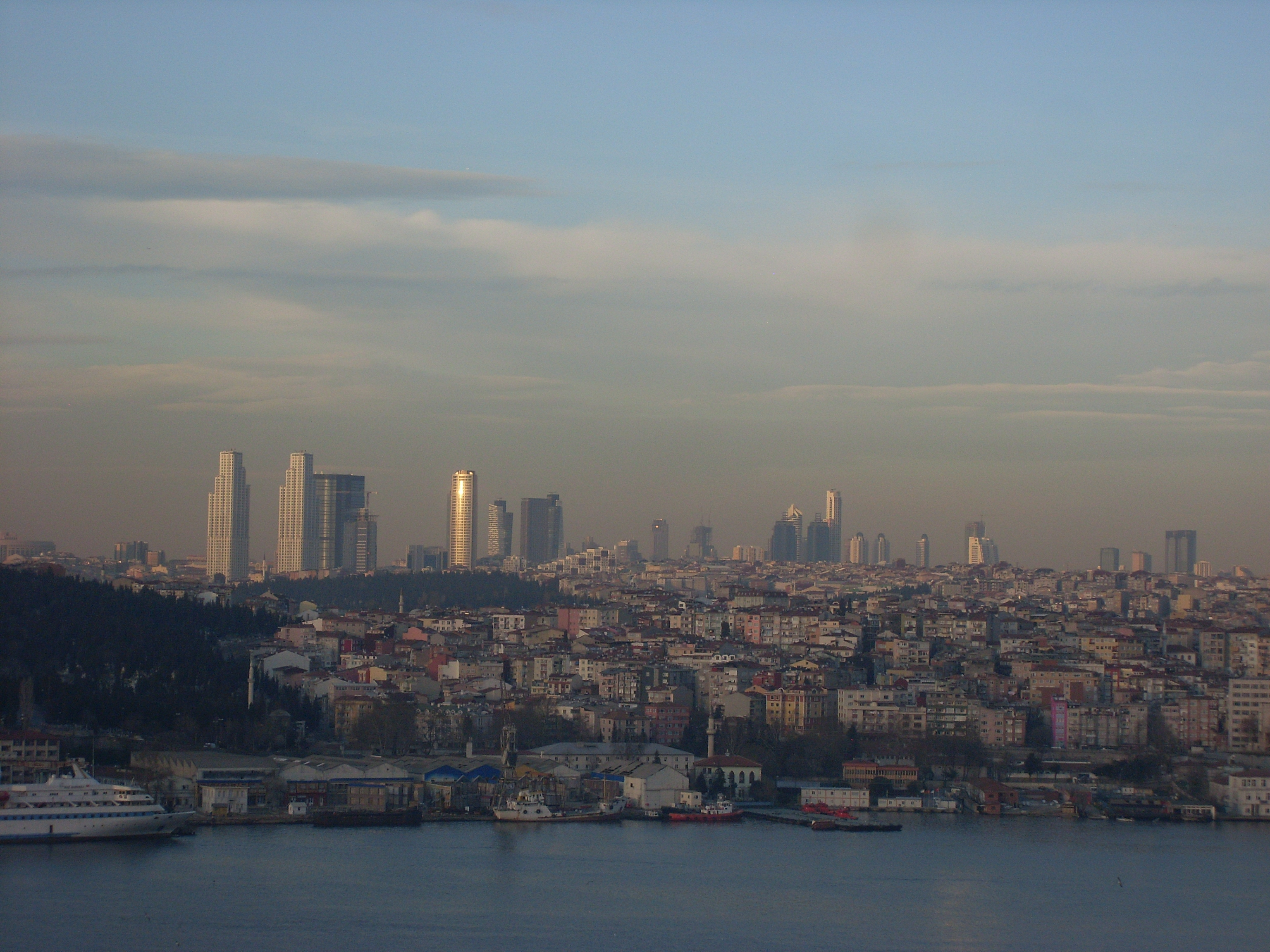 İstanbul - Golden Horn view from Yavuz Selim Mosque - Mart 2013 - r11